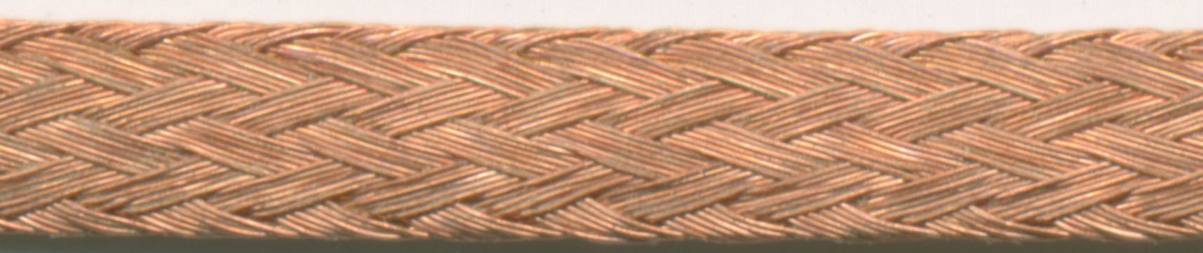 Close up to a piece of solder wick